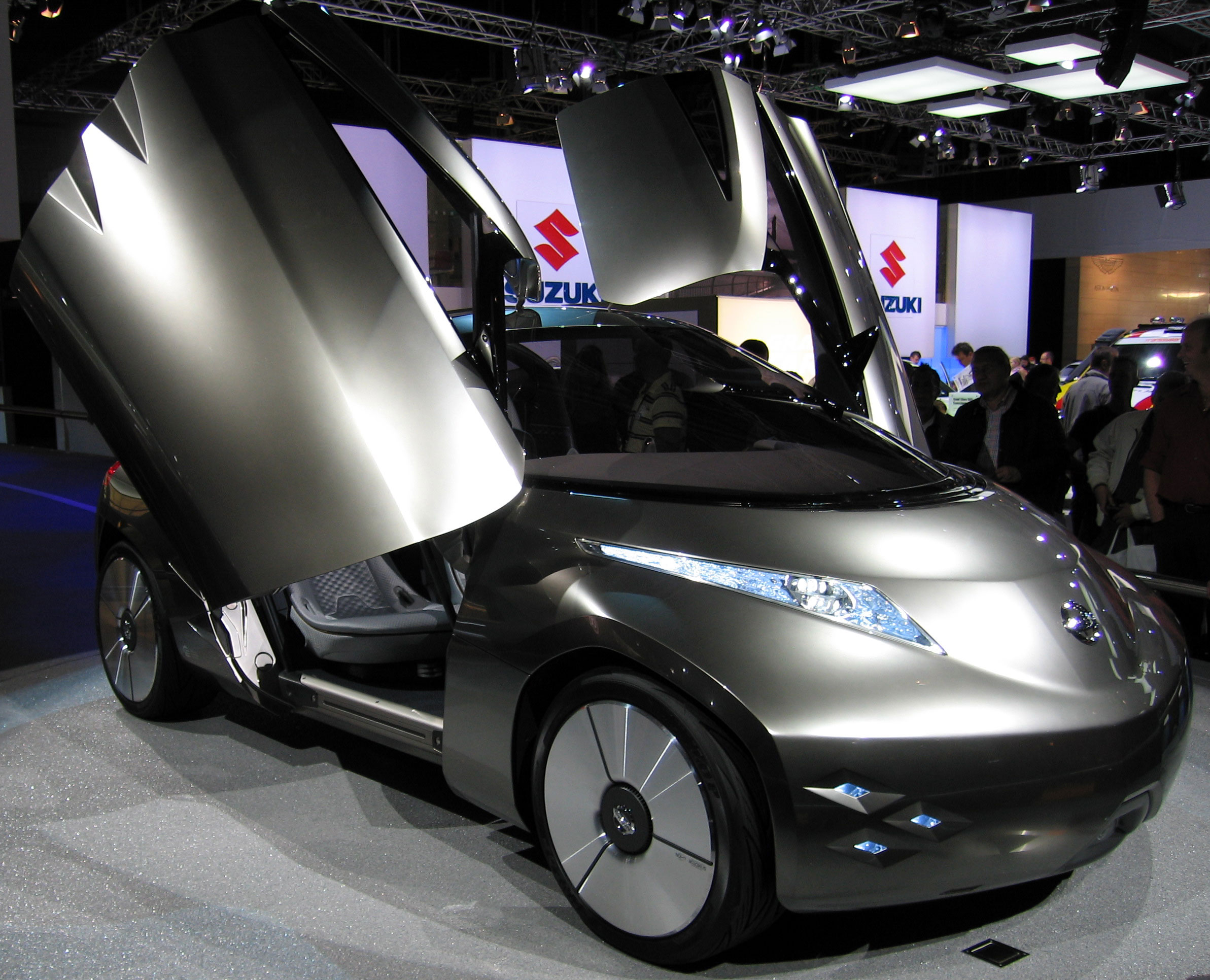 Nissan Mixim concept at the IAA 2007